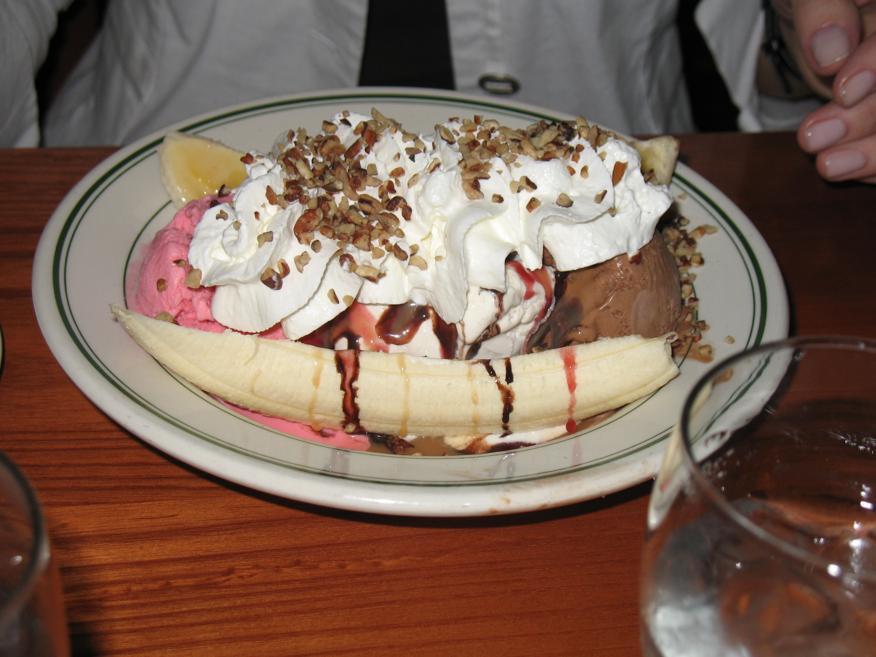 Banana split as served at the Hilton Chicago (2007).